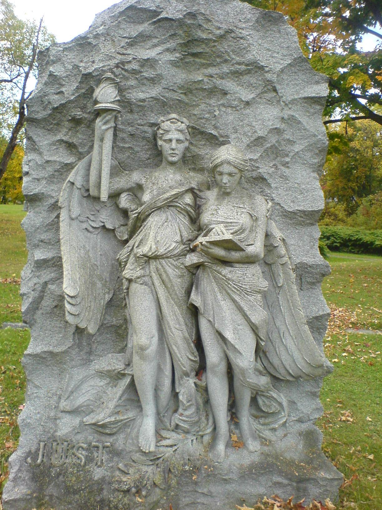 Picture of the Just Monument, Syracuse, NY